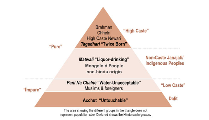 The 1854 Muluki Ain codification of entire Nepalese society into a single hierarchical fold